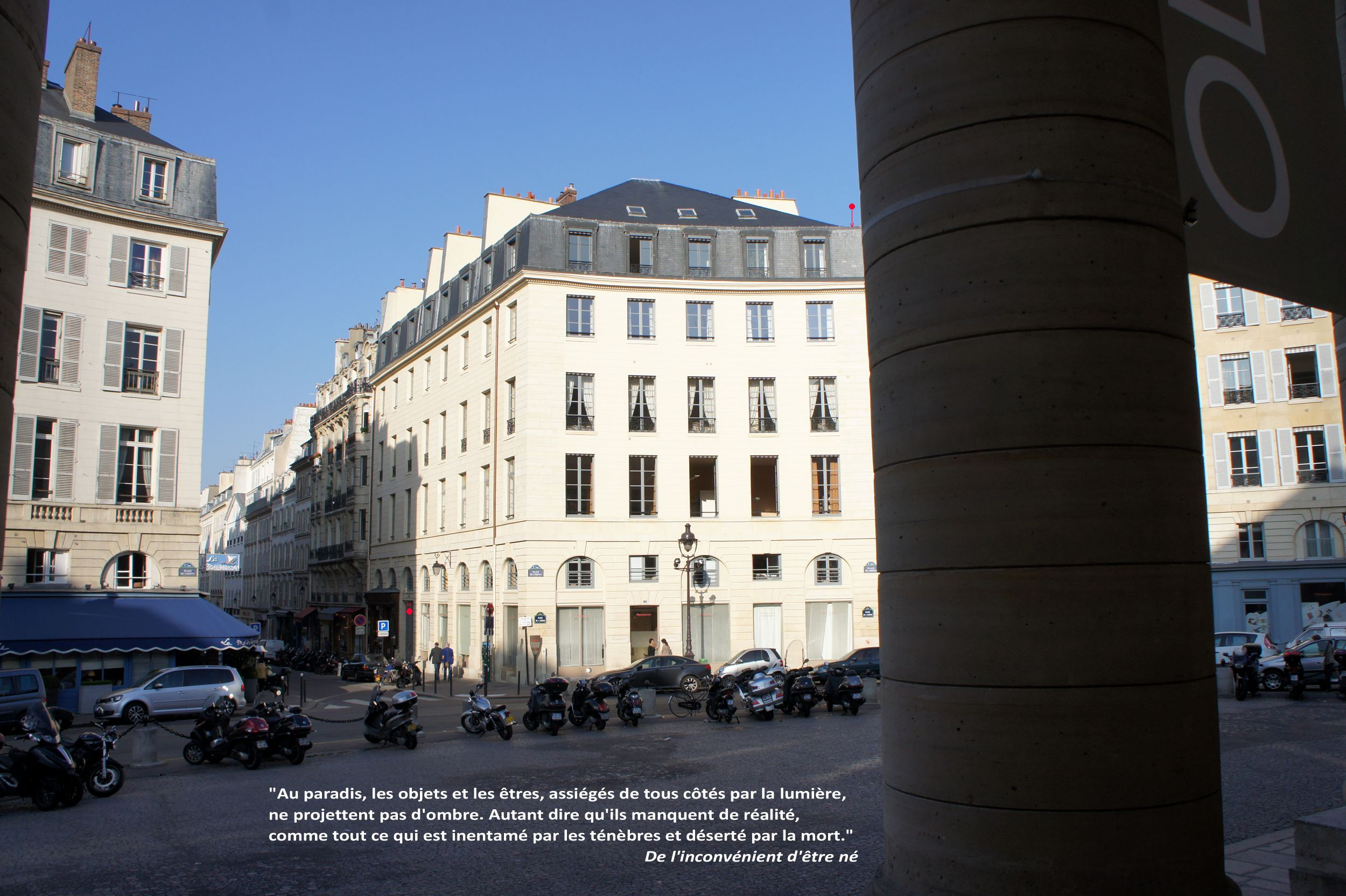 After 5 years in the Relais Médicis and 15 years in the hotel Michelet, Cioran has been standing with Simone Boué at the 21 rue de l'Odéon for the rest of his life.